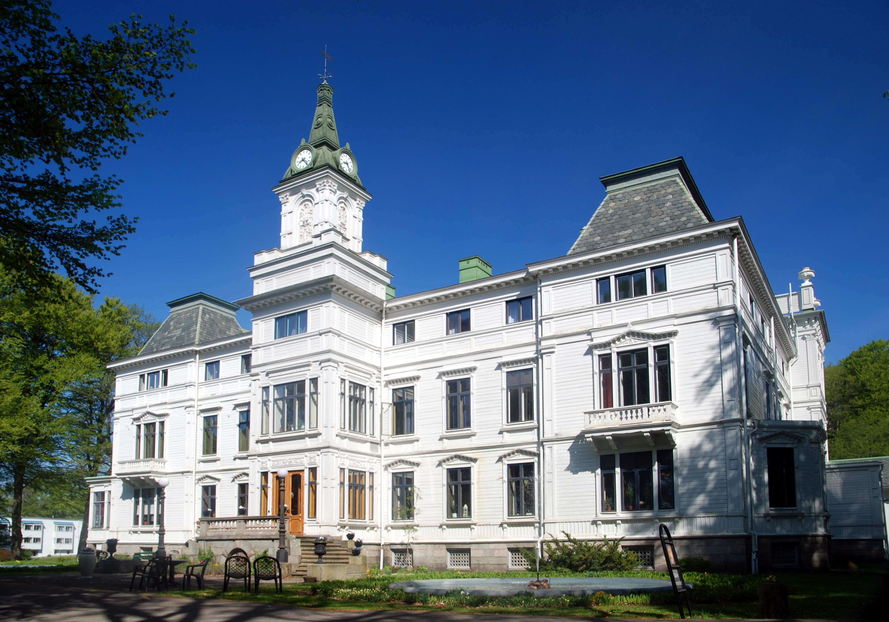 Main building of "Wendelsbergs folkhögskola" in Mölnlycke